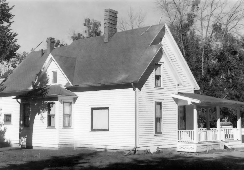 Original 1900 wood frame home of artist Charles Marion Russell, located in Great Falls, Montana, in the United States. The location of the home is not original. The home was moved approximately 70 feet (21 m) northeast of its original location in 1973. The home is currently part of the C. M. Russell Museum Complex.